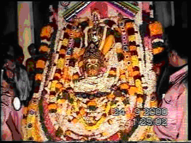 Garuda Sevai is the most famous festival celebrated in the temple 2